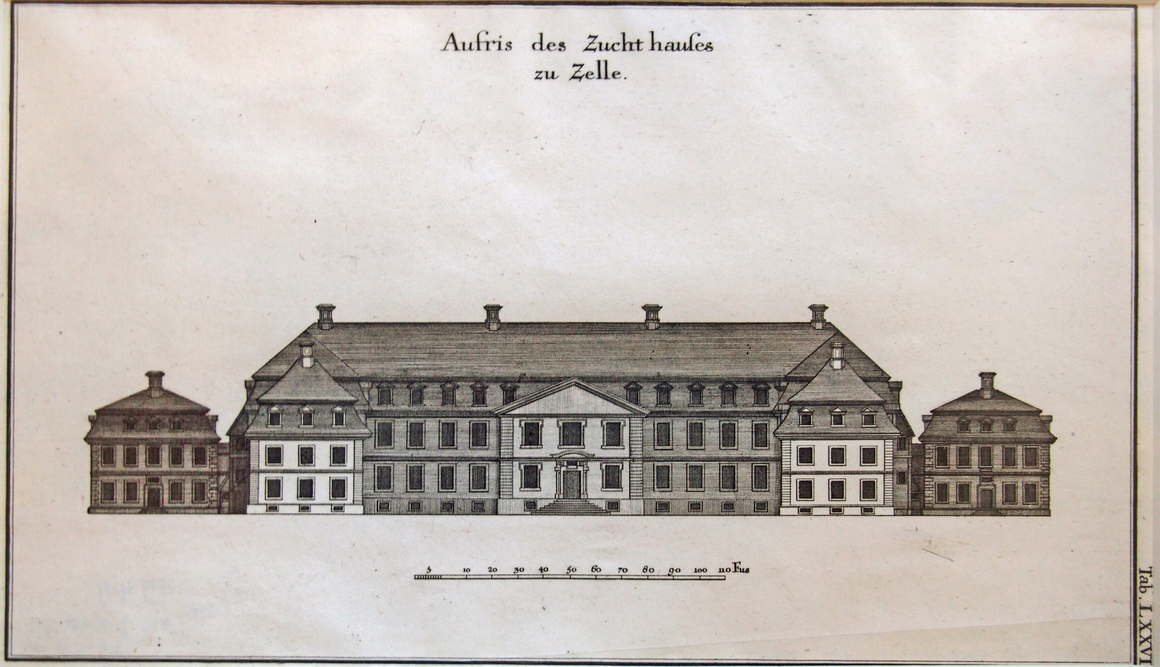 View of the Celle goal, workhouse and madhouse